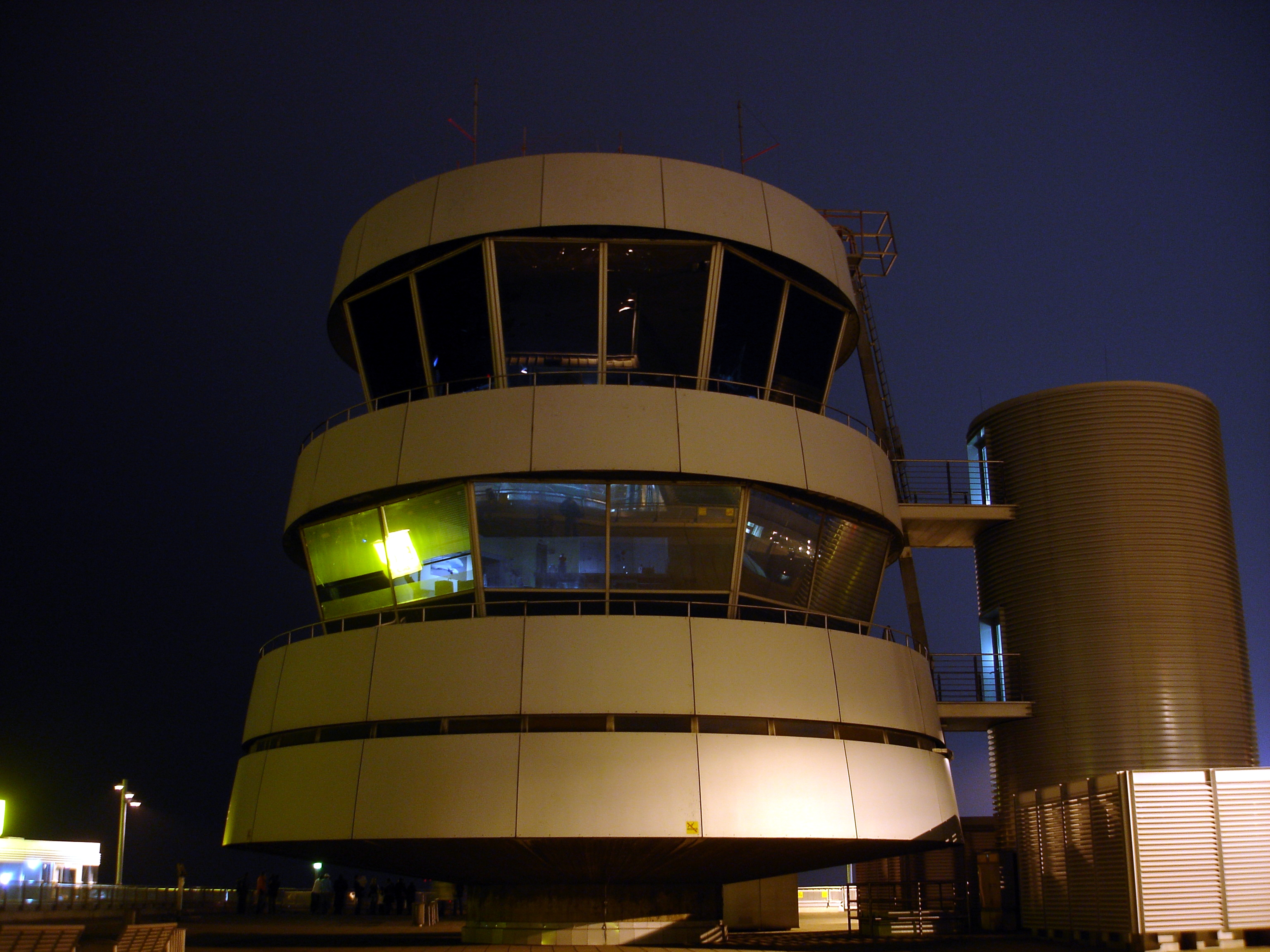 The old tower of Düsseldorf International Airport at night.